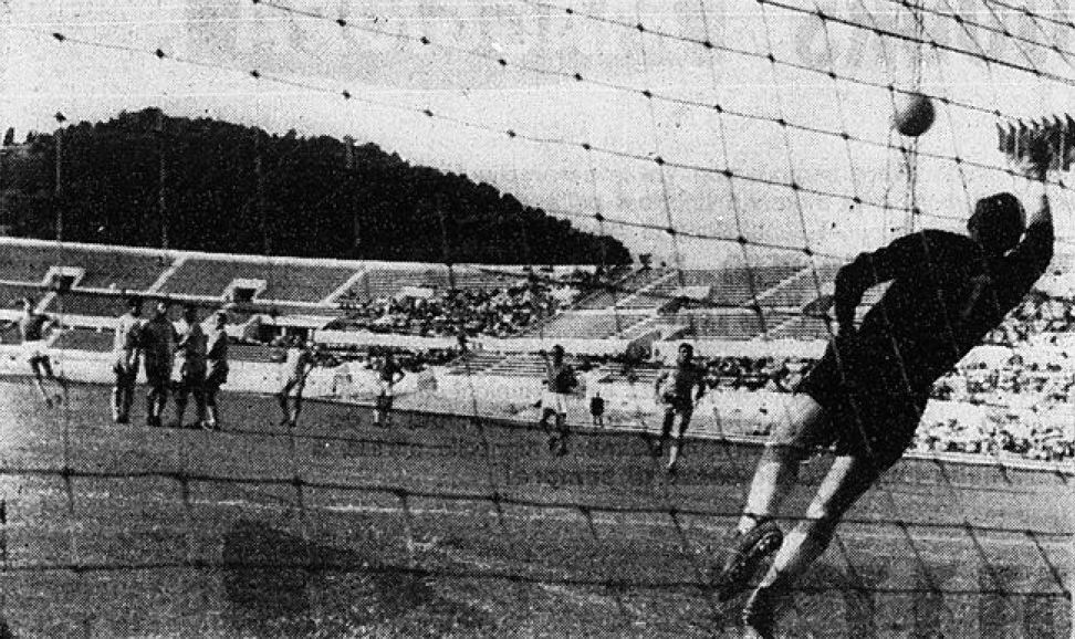 Rome (Italy), Olympic Stadium, June 21, 1962. A.C. Napoli — SPAL 2-1, 1961–62 Coppa Italia Final: Napoli's forward Gianni Corelli beated the SPAL's goalkeeper Edo Patregnani from a free kick and scores the partial 1-0 at 12'.